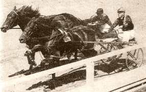 False Step (1952) was a New Zealand Standardbred racehorse that won three NZ Trotting Cup races. Here False Step (inner) defeats Glint in 1955 NZ Derby Stakes.